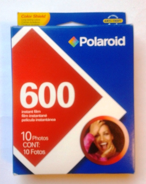 A Polaroid 600 package